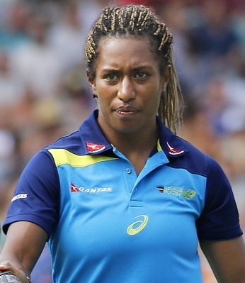 2017.02.05.15.39.28-Classics v Famous Fijians-0001